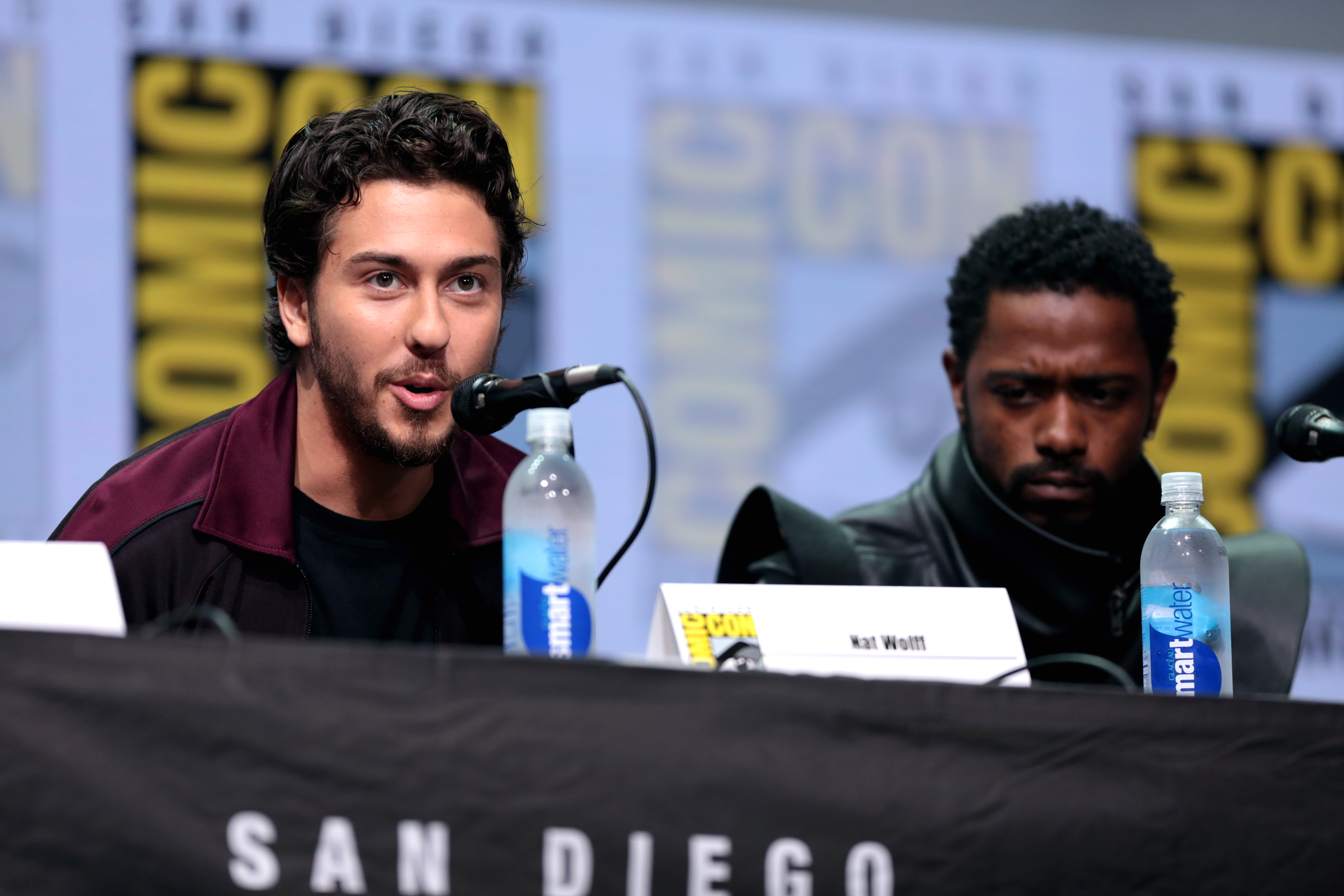 Nat Wolff and Keith Stanfield speaking at the 2017 San Diego Comic Con International, for "Death Note", at the San Diego Convention Center in San Diego, California.